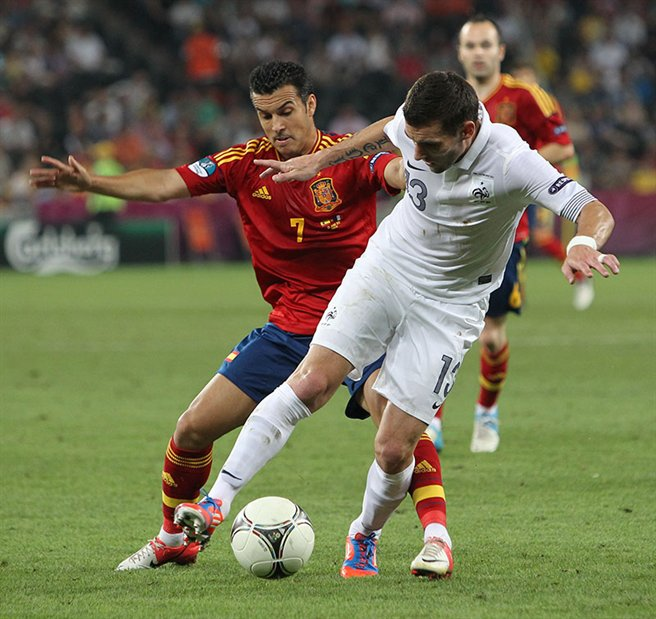 Pedro Rodríguez and Anthony Réveillère at Euro 2012 match Spain-France